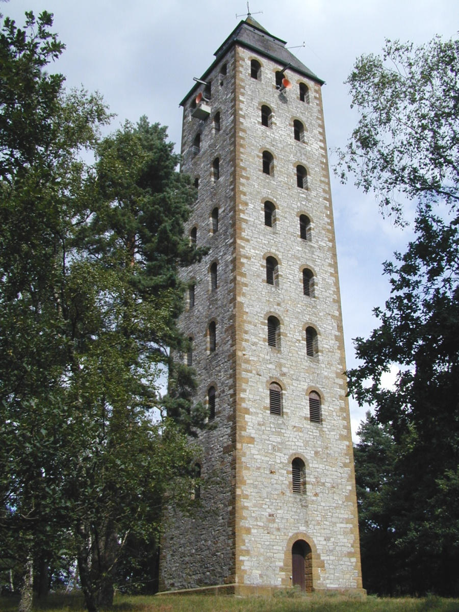 Hausten Tower in disbandoned village Haustenbeck (belonging to Schlangen, District of Lippe, North Rhine-Westphalia) at what is now the British Army military traning ground near Sennelager, Germany. The tower was errected in 1941 by the German Army for surveying the military execises in that area.